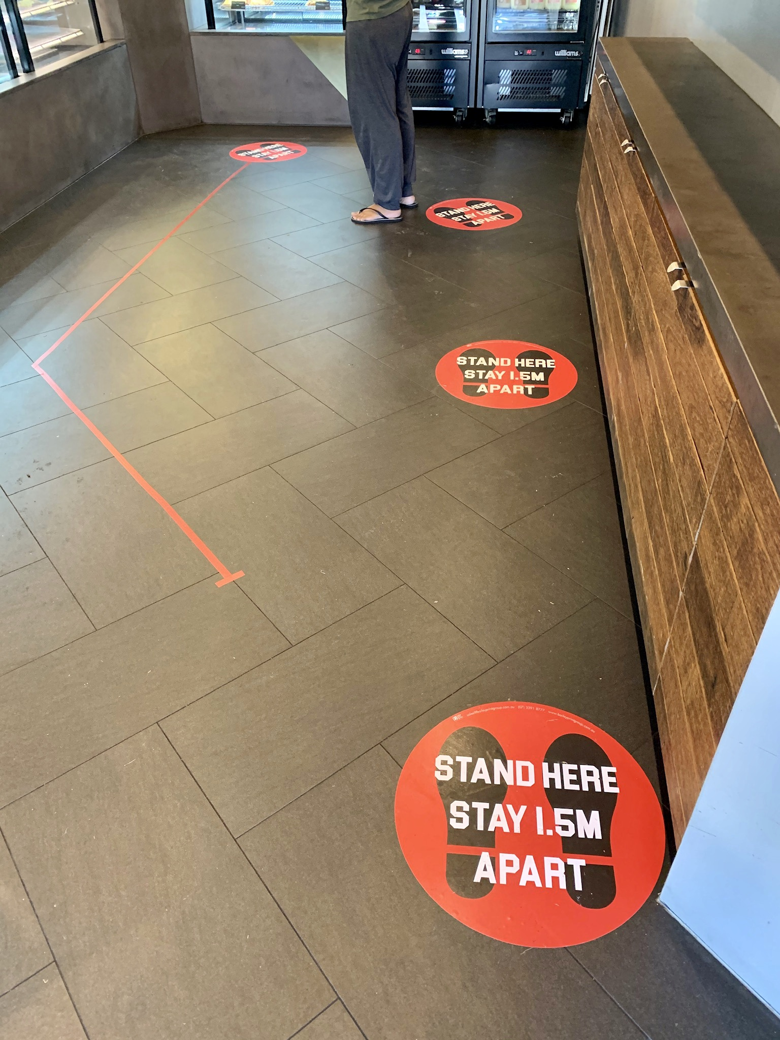 Signs for social distancing at shops during the COVID-19 pandemic in Brisbane, Australia